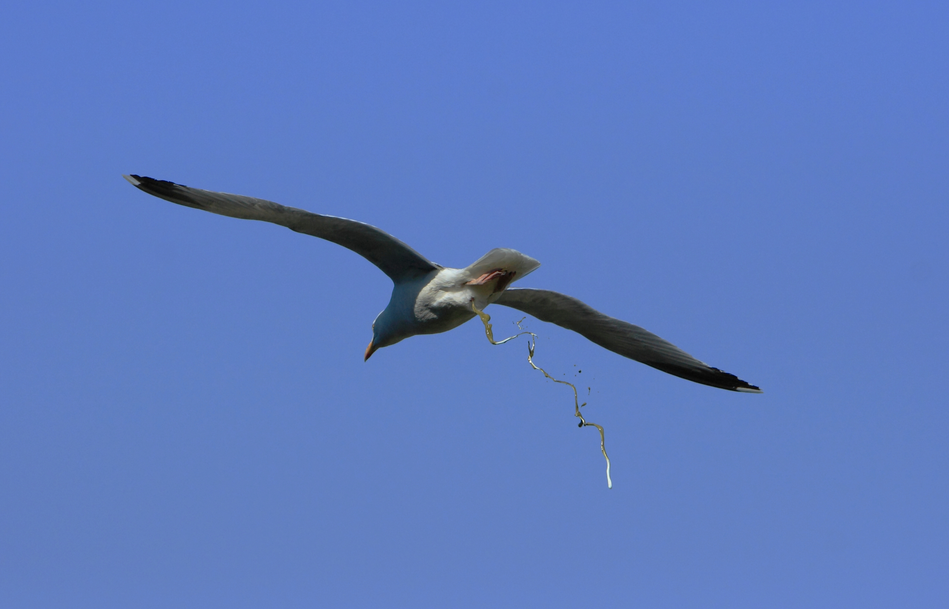 A Herring Gull (Larus argentatus) defecating near to Bréhat island